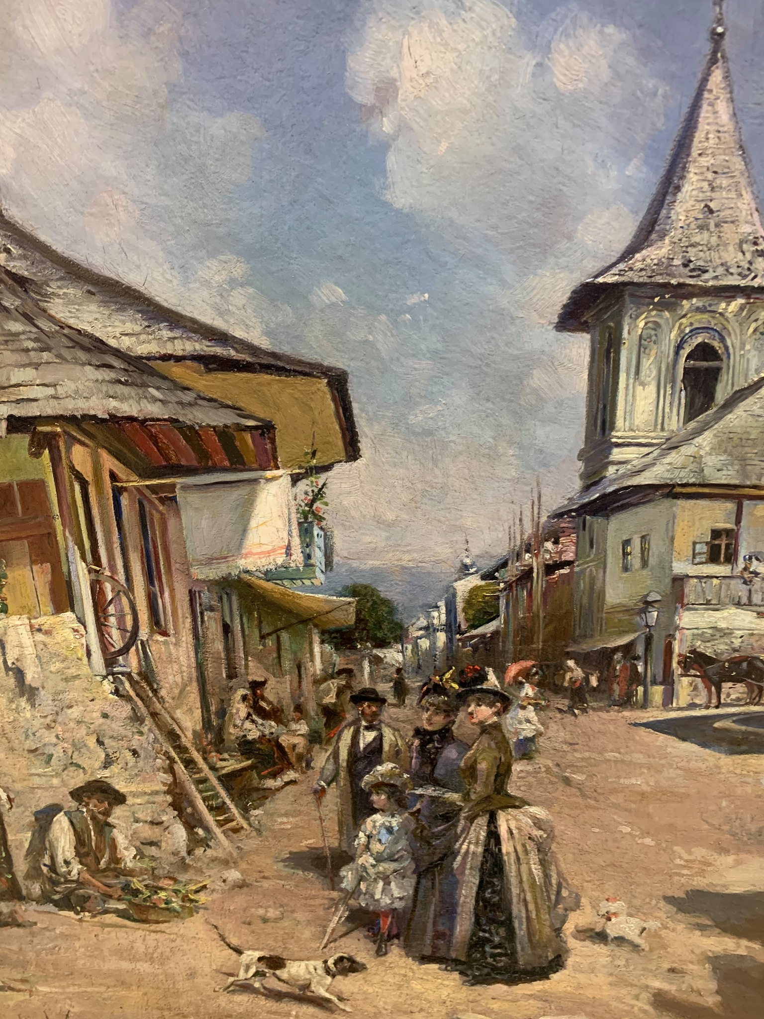 Theodor Aman - Street in Cîmpulung (1875)